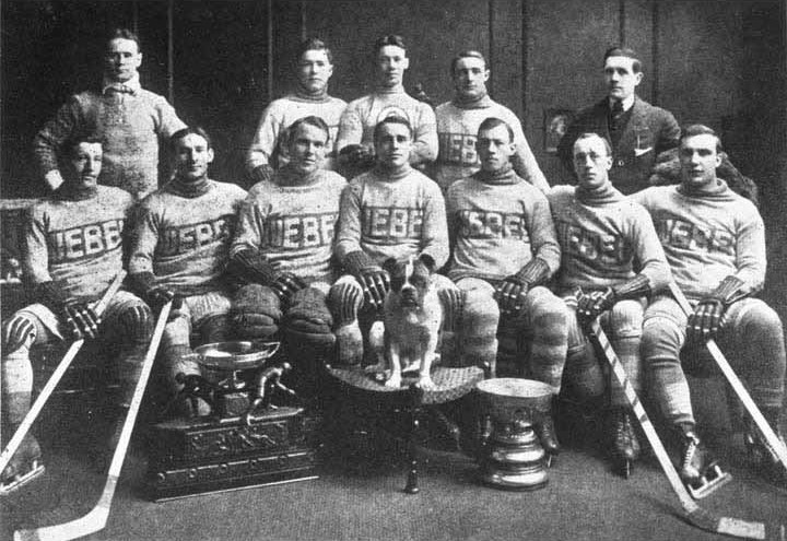 Team photo of the 1913 Stanley Cup champions, the Quebec Bulldogs.Top row, left to right: Dave Beland, Billy Creighton, Walter Rooney, Jeff Malone, Mike QuinnFront row, left to right: Tommy Smith, Rusty Crawford, Paddy Moran, Joe Malone, Joe Hall, Jack Marks, Harry Mummery